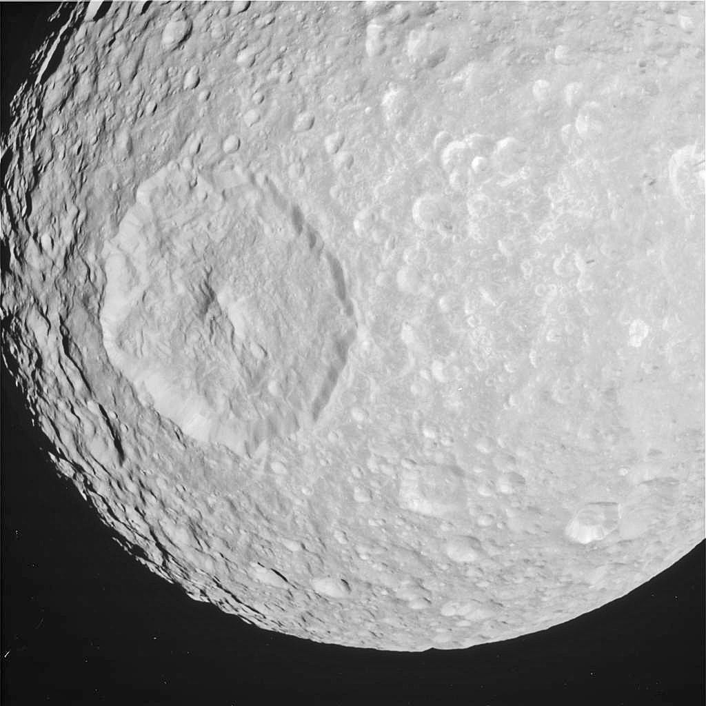 N00151580.jpg was taken on February 13, 2010 and received on Earth February 15, 2010. The narrow-angle camera was pointing toward MIMAS at approximately 52,198 kilometers away, and the image was taken using the CL1 and CL2 filters. This image has not been validated or calibrated. A validated/calibrated image will be archived with the NASA Planetary Data System in 2011. For more information on raw images check out our frequently asked questions section. The original NASA image has been modified by darkening highlights, increasing midtone contrast and sharpening.